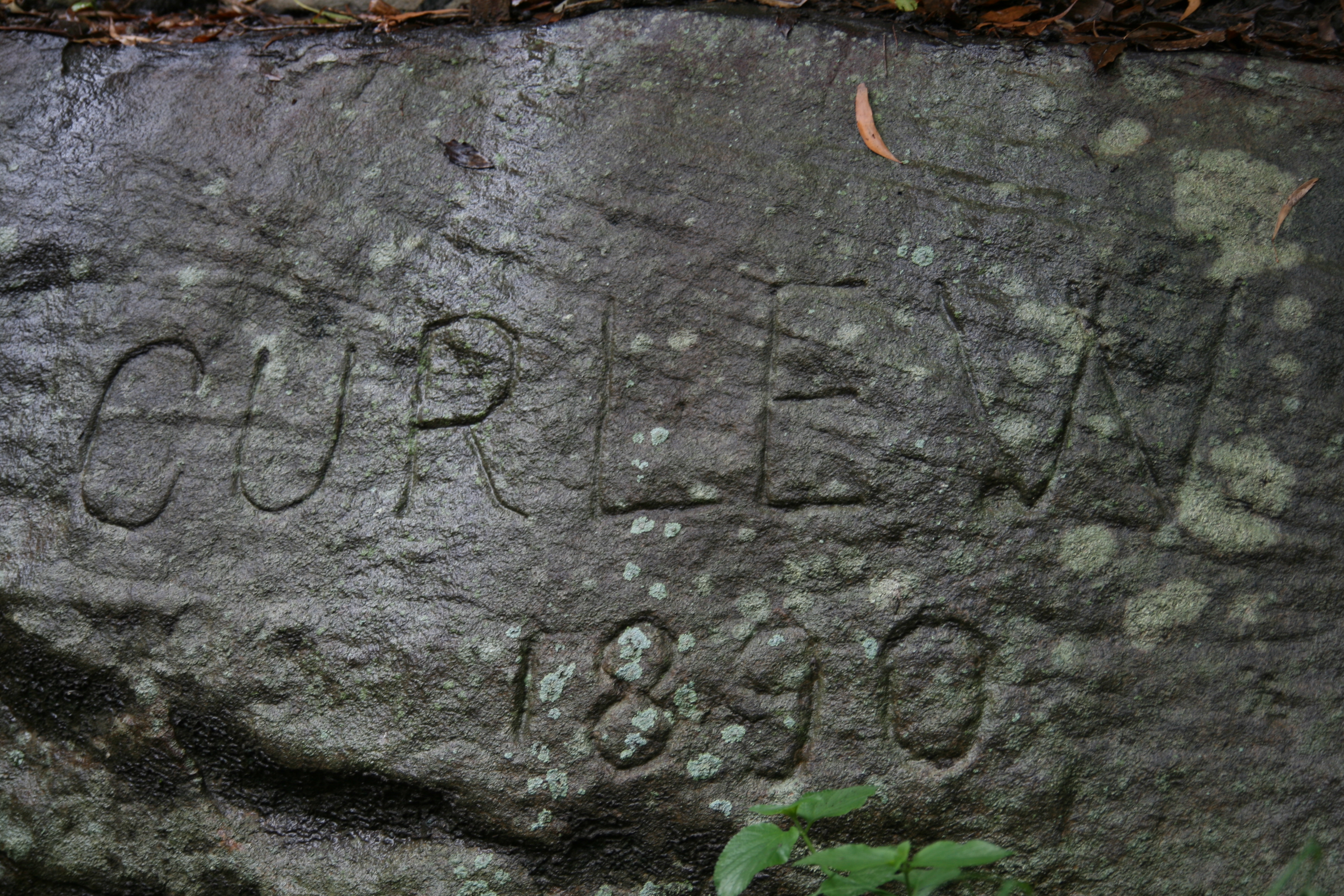 Archaeological evidence of Curlew Camp - Artists' Camp - near Mosman, Sydney. Engraved in natural rock "Curlew 1890".